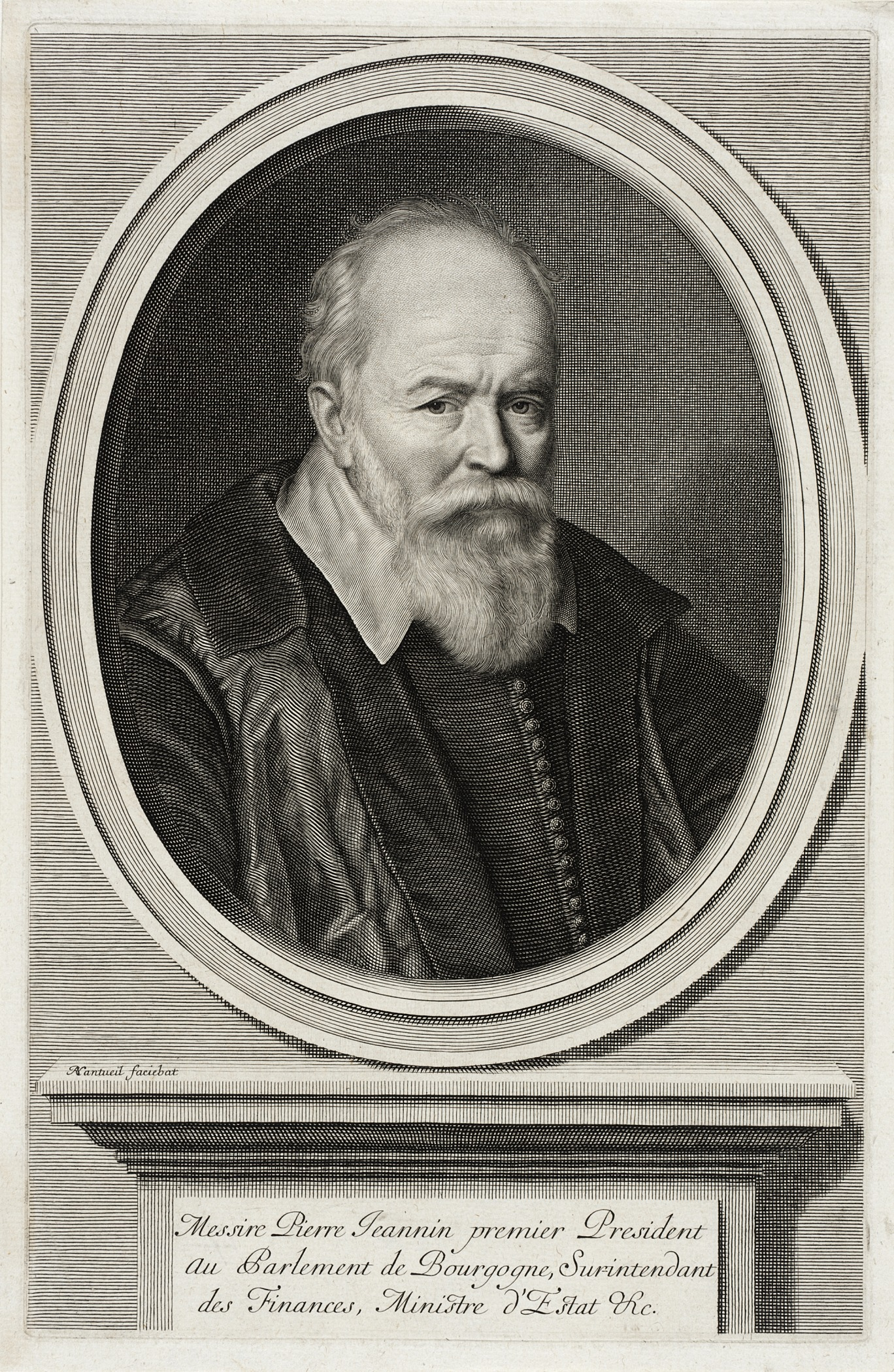 France, 1656 Prints; engravings Engraving Gift of Connie and Ted Harris (M.91.124.3) Prints and Drawings